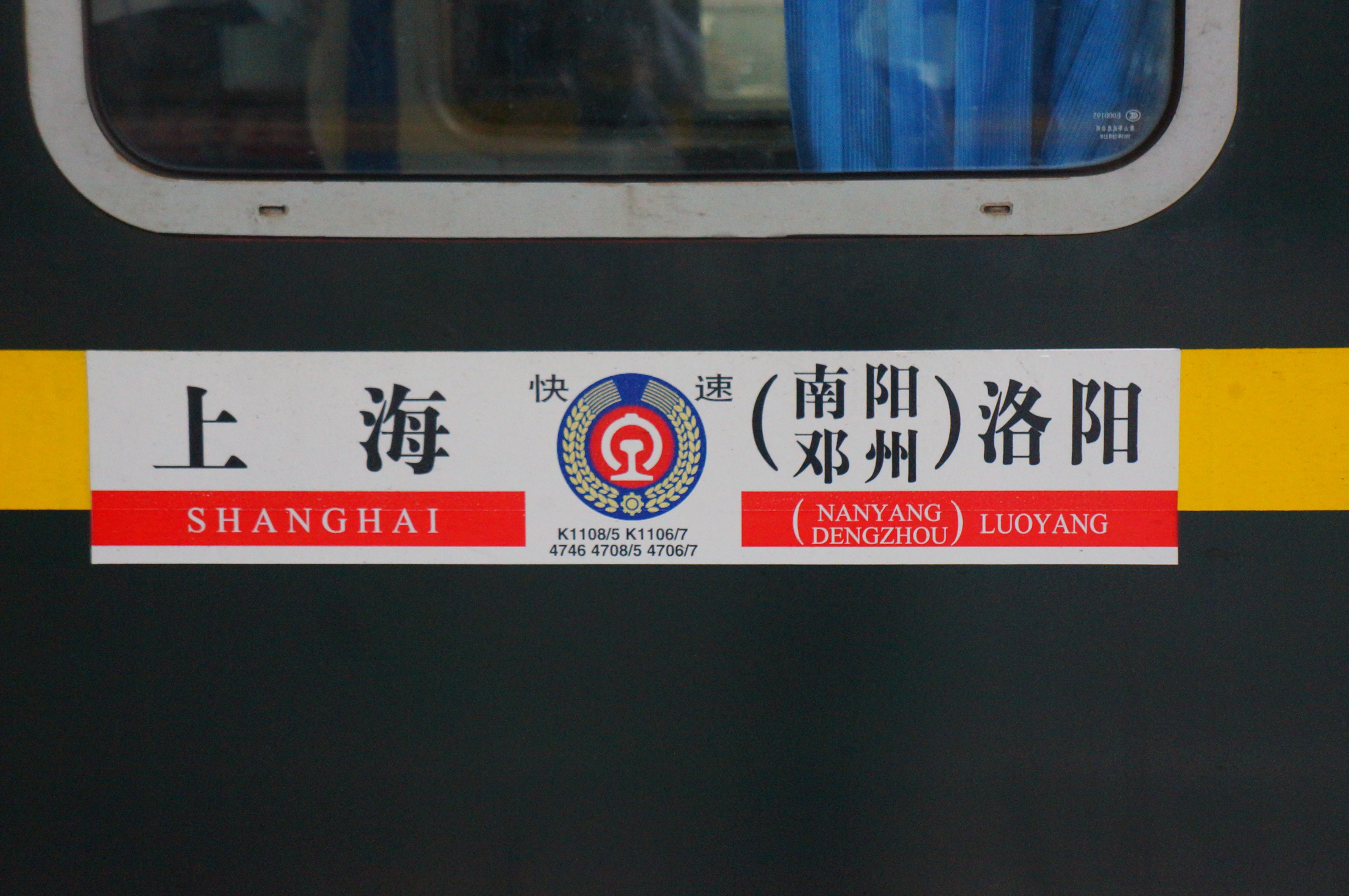 K1105 6 7 8 infoboard in 201705, taken at SHA.